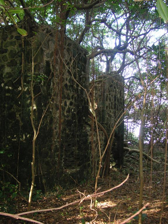 Photograph of the ruin at Cootens Bay, Tortola, British Virgin Islands